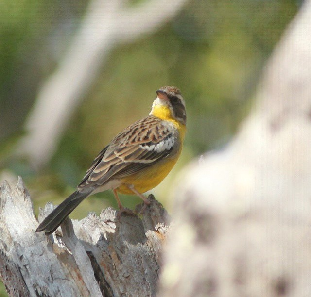 Cabanis's bunting at Menongue in central Angola